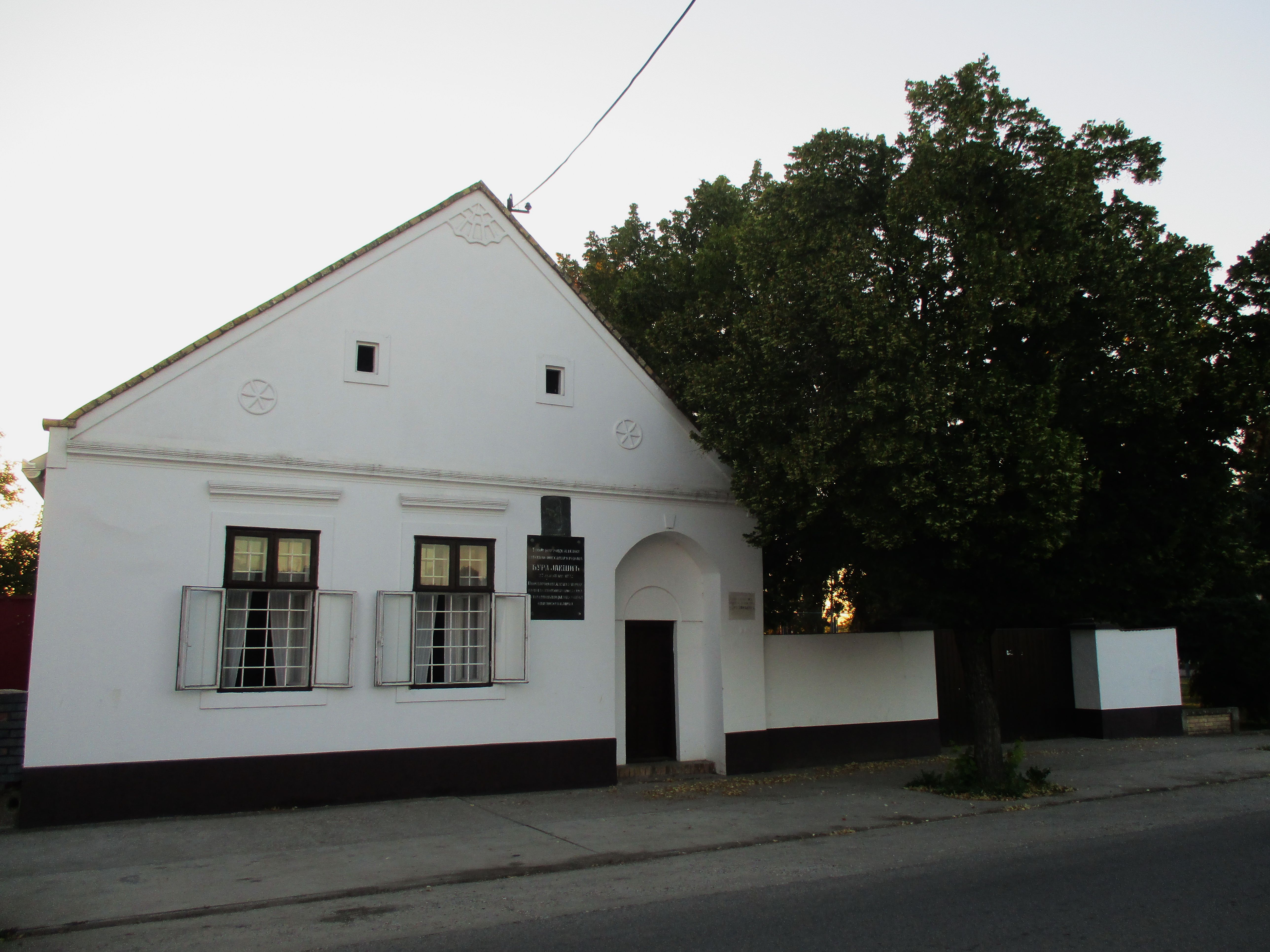 The house where Serbian poet and painter Đura Jakšić was born (Srpska Crnja).